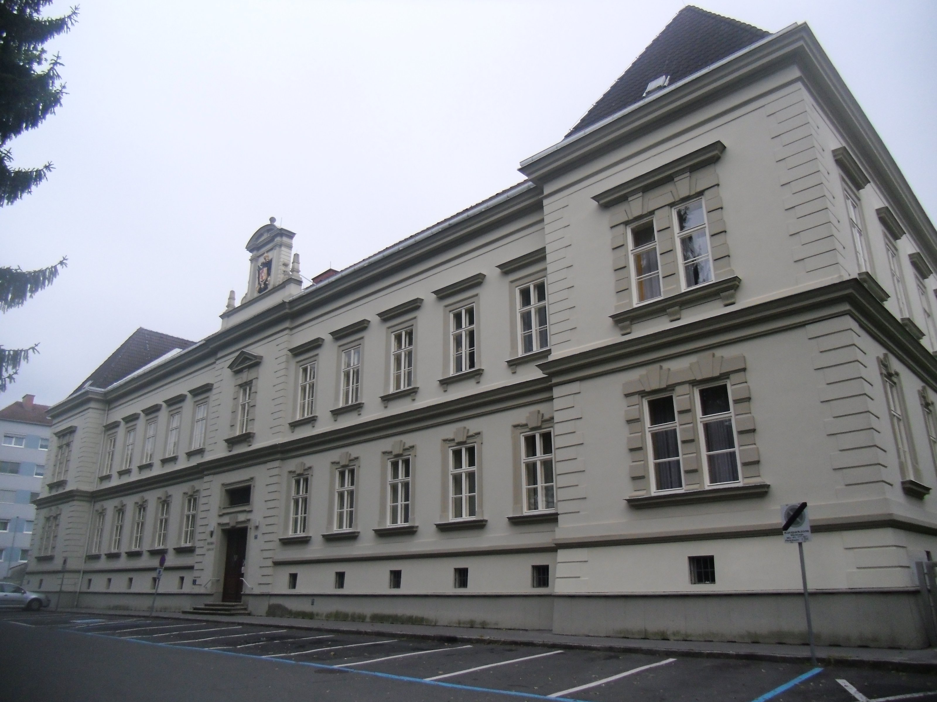 Bezirksgericht